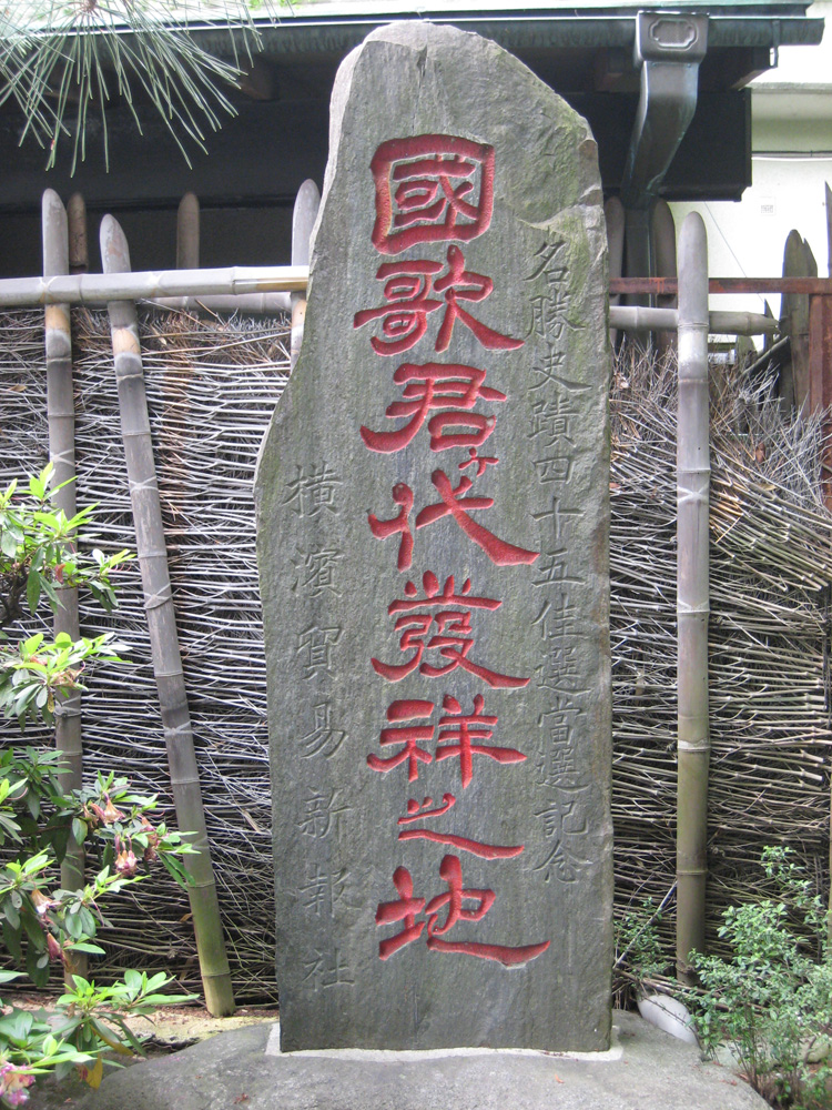 Monument to the birthplace of the national anthem in Yokohama Japan